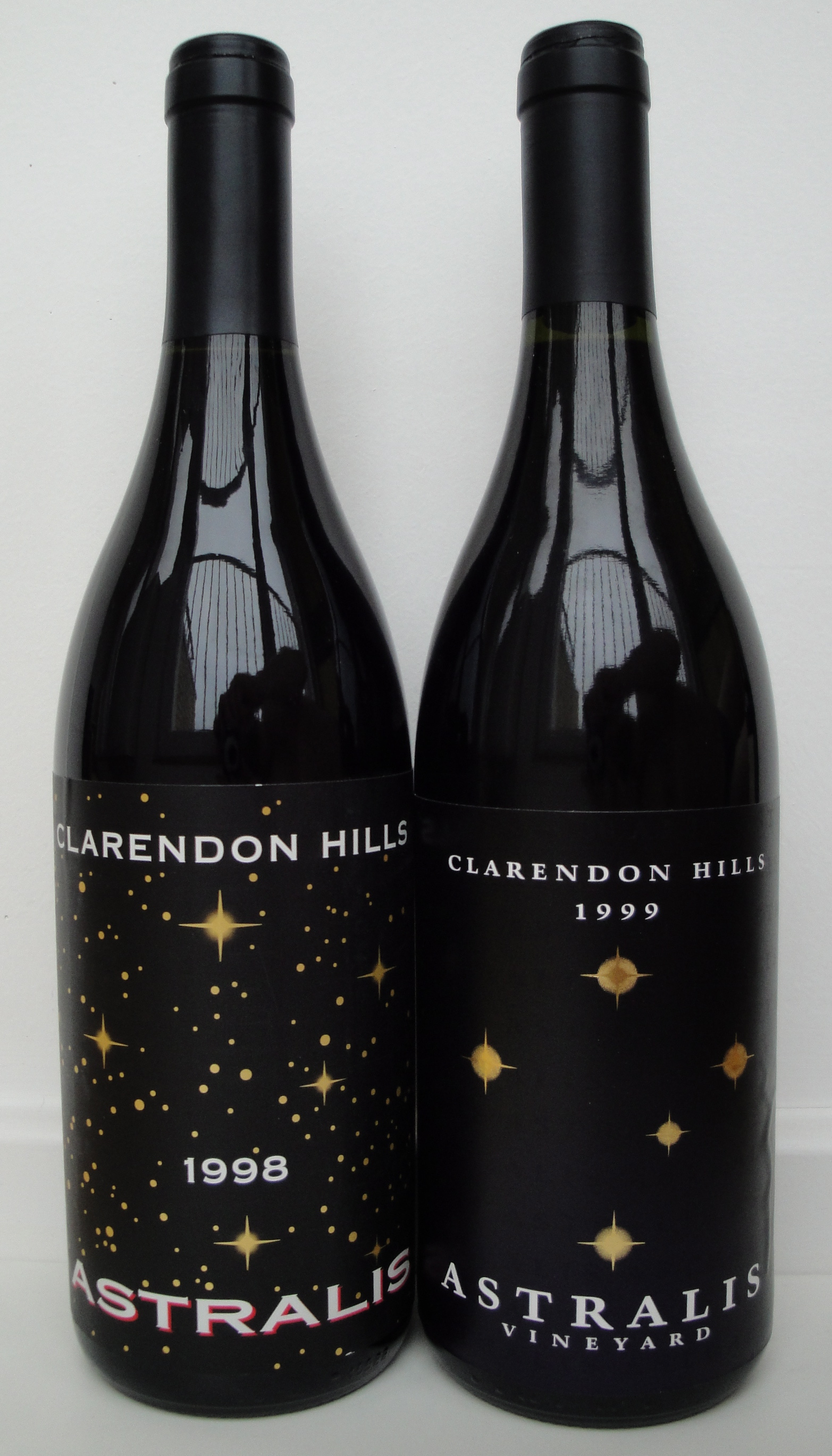 Astralis 1998 and 1999, a wine from the Clarendon Hills winery in Australia.